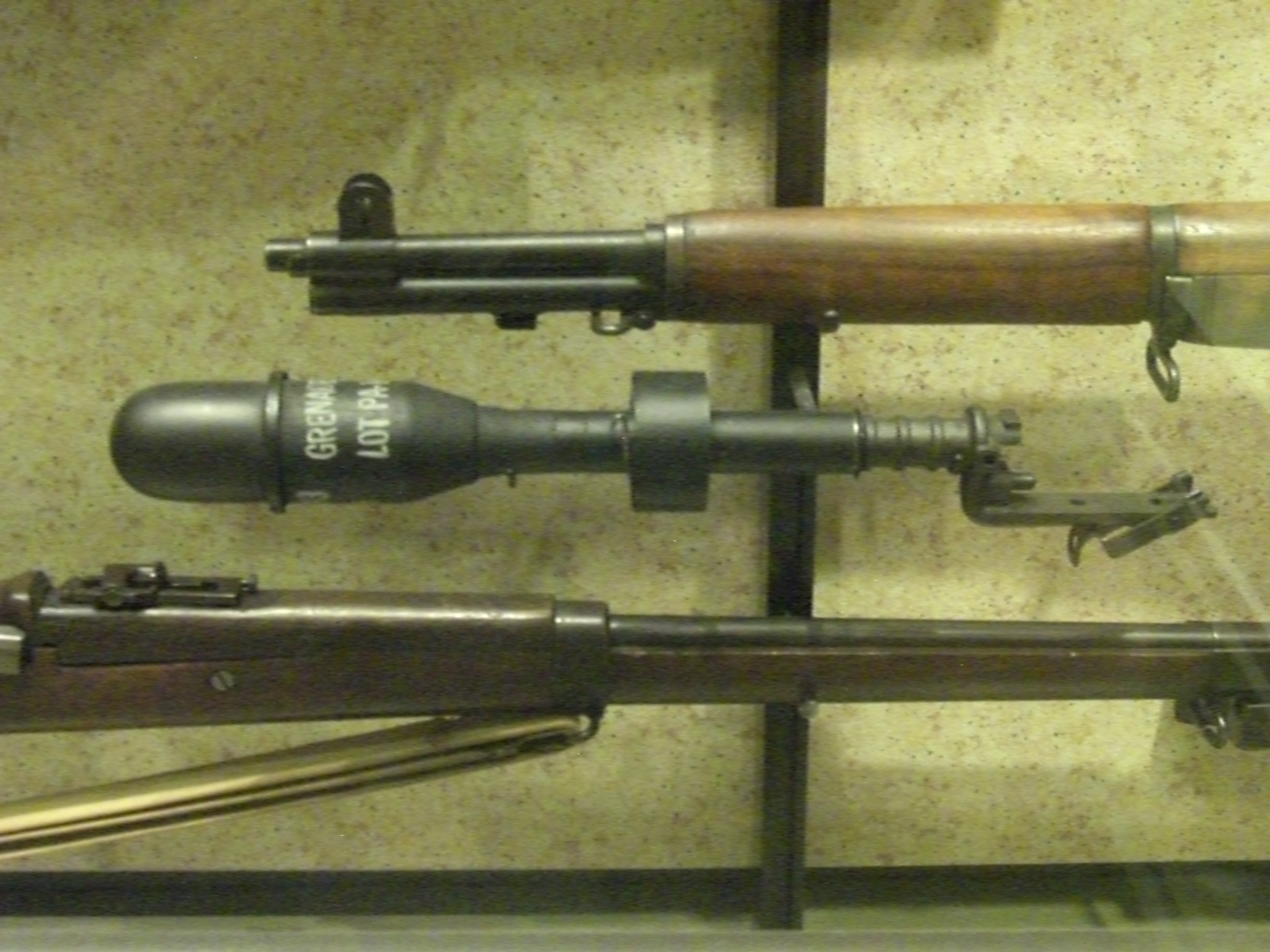 The muzzle of an M1 Garand and a grenade for that rifle. Taken at the National Firearms Museum